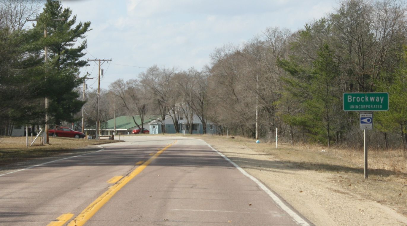 Looking north at the sign for the community of Brockway, Wisconsin along U.S. Route 12.